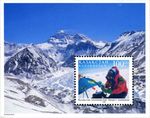 Stamp of Kazakhstan